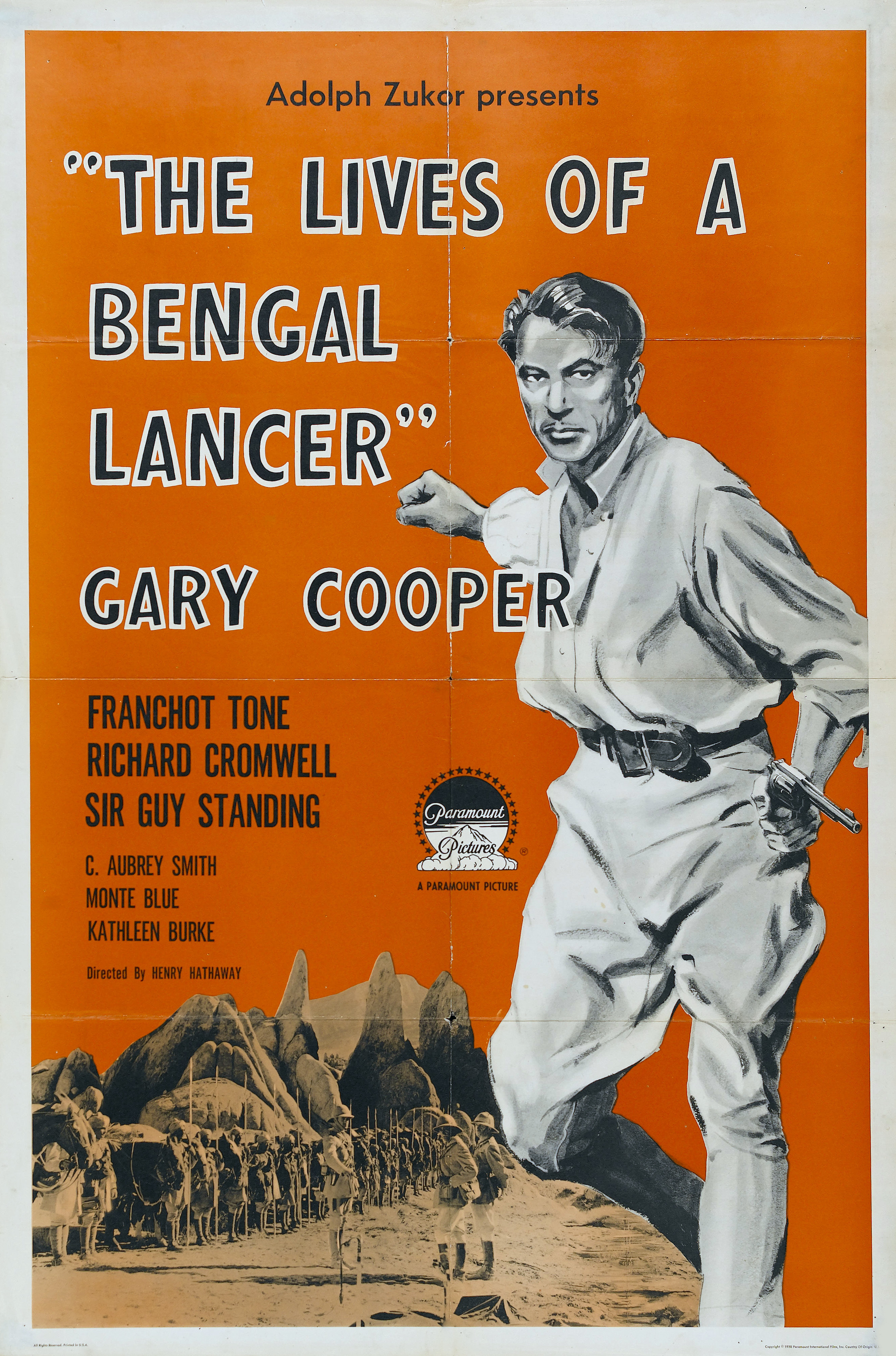 Poster - The Lives of a Bengal Lancer (1935) - directed by Henry Hathaway, with Gary Cooper